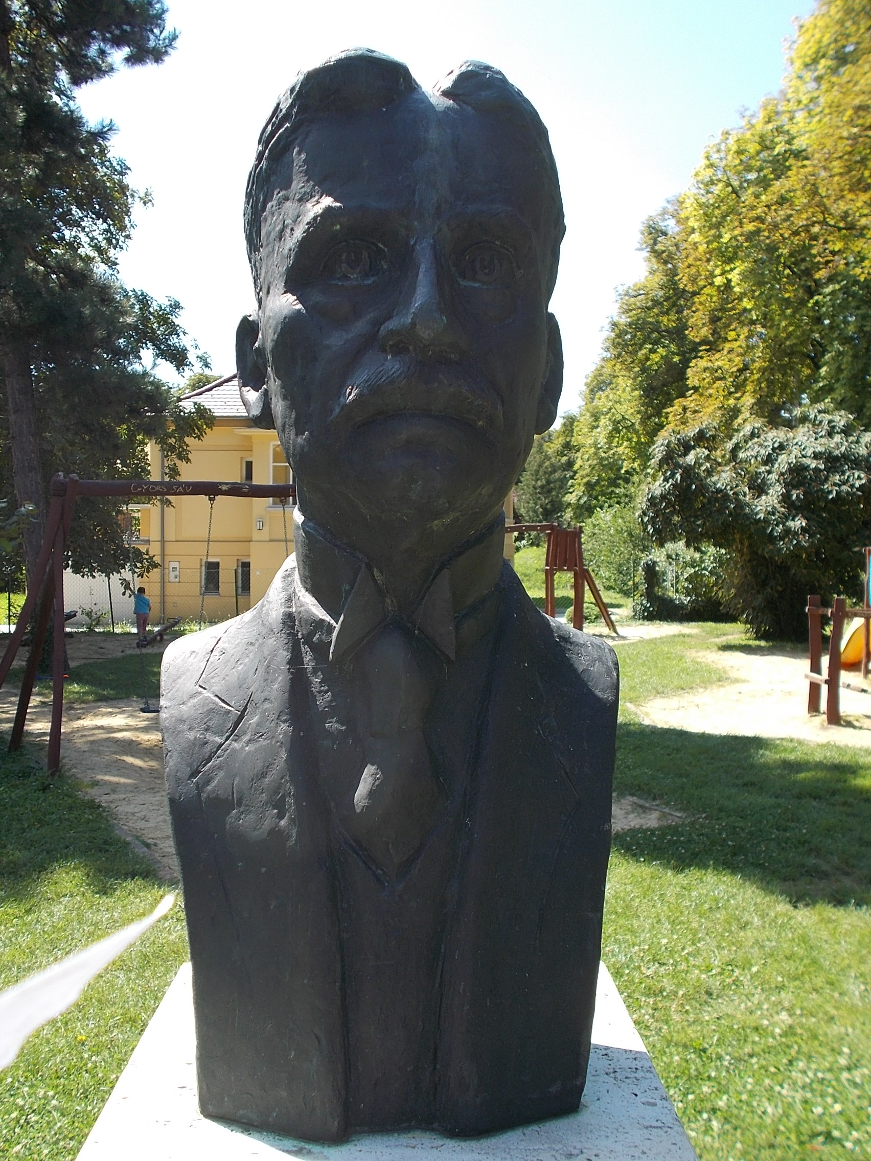 Bust of Sándor Lovassy by Péter Szabolcs (1994). - Kossuth Lajos Street, Keszthely, Zala County, Hungary.